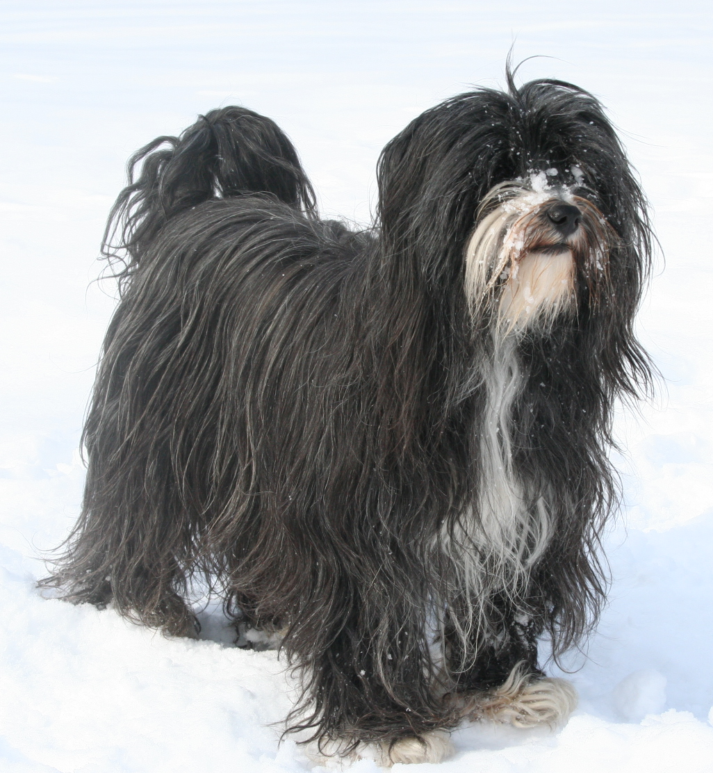 Tibetan Terrier on snow